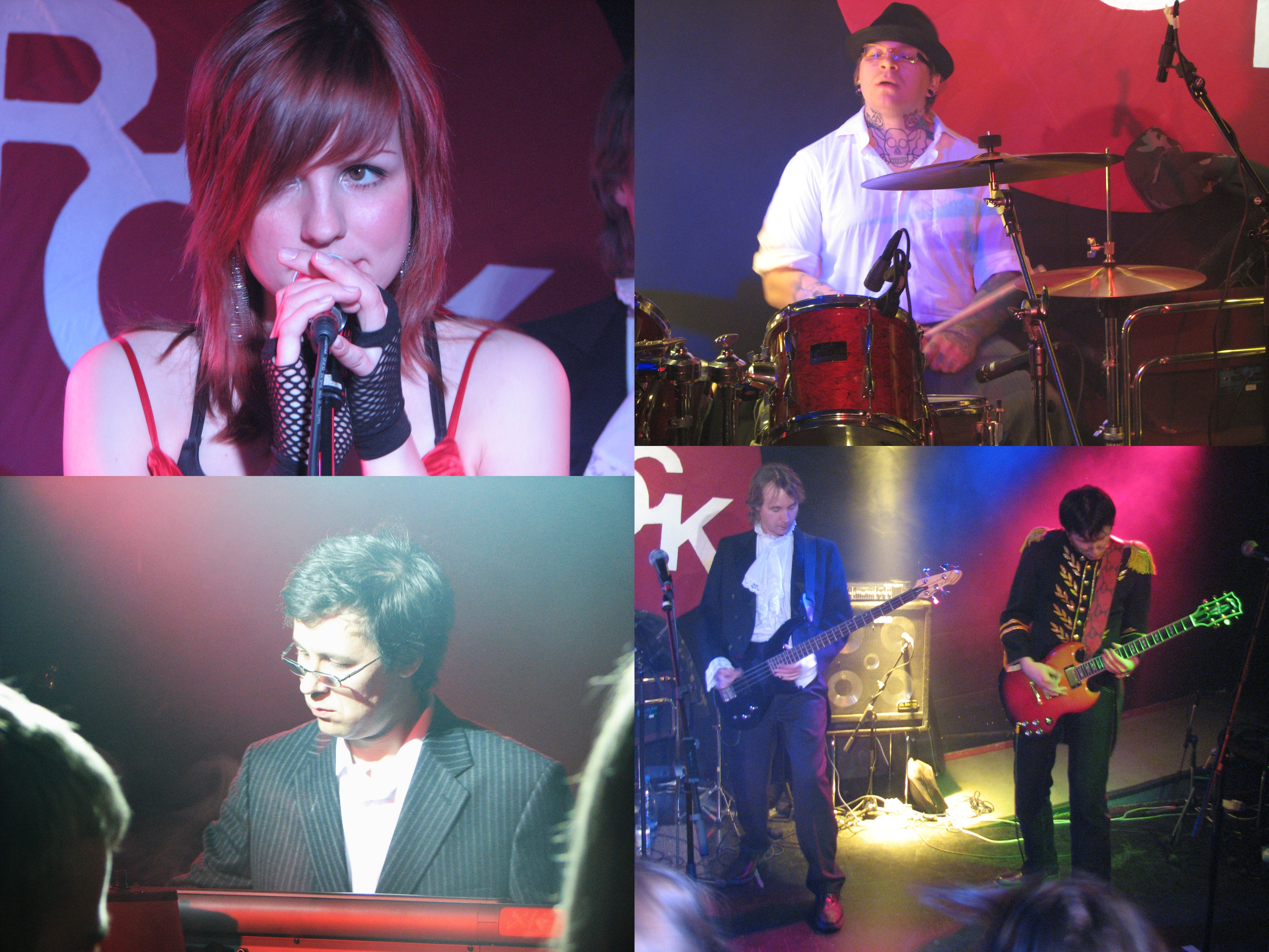 Members of Agent M, pictured performing in Jyrock indoor festival at Ilokivi, Jyväskylä, Finland on 21. April 2007. From upper left corner: Merili Varik (vocals), Jarmo Nuutre (drums), Andrus Kanter (keyboards), Reimo Va (bass) and Marten Vill (guitar).